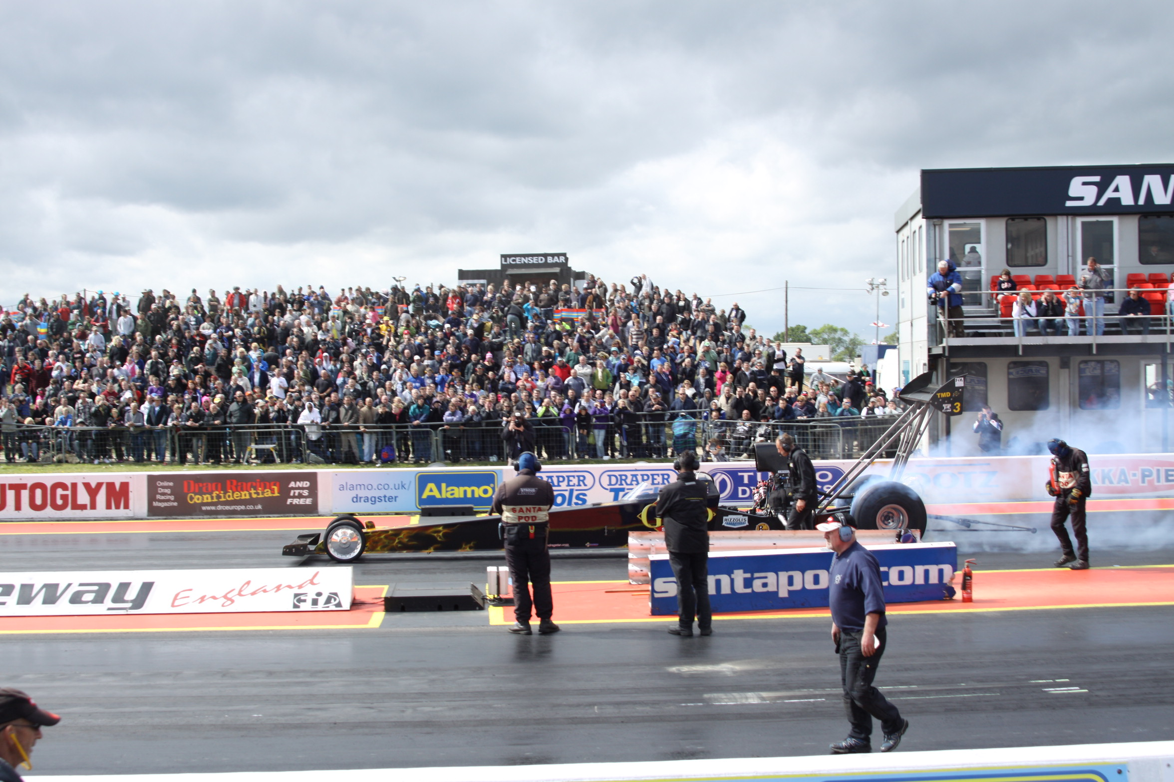 European Drag Racing Championship at Santa Pod Raceway. Class: FIA Top Methanol Dragster (TMD) - Driver: Derek Flyn (England)